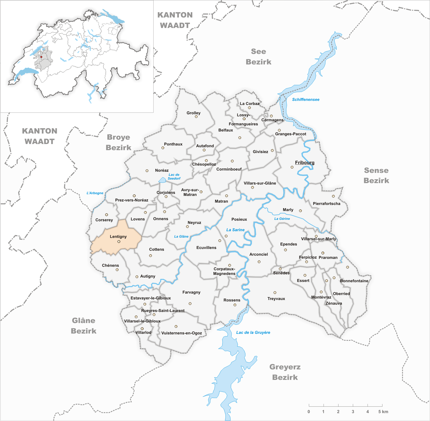 Municipality Lentigny Artist: Tschubby